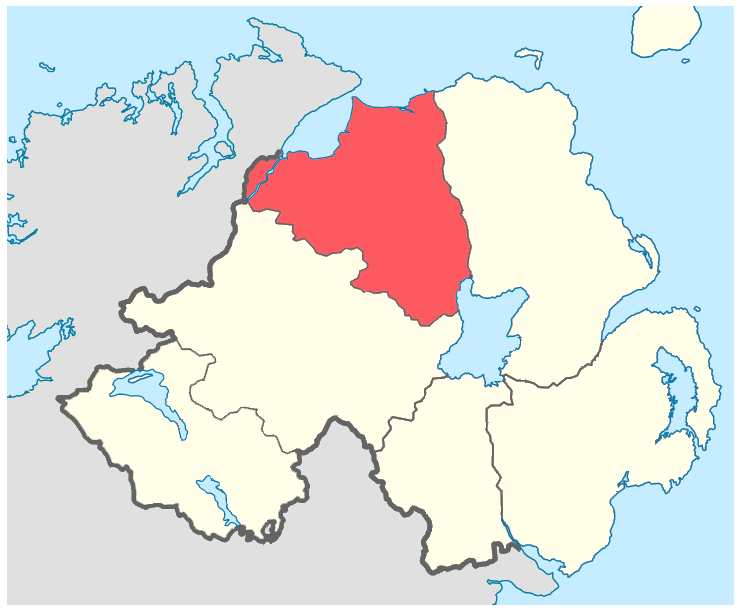 Map of County Londonderry, Northern Ireland, United Kingdom